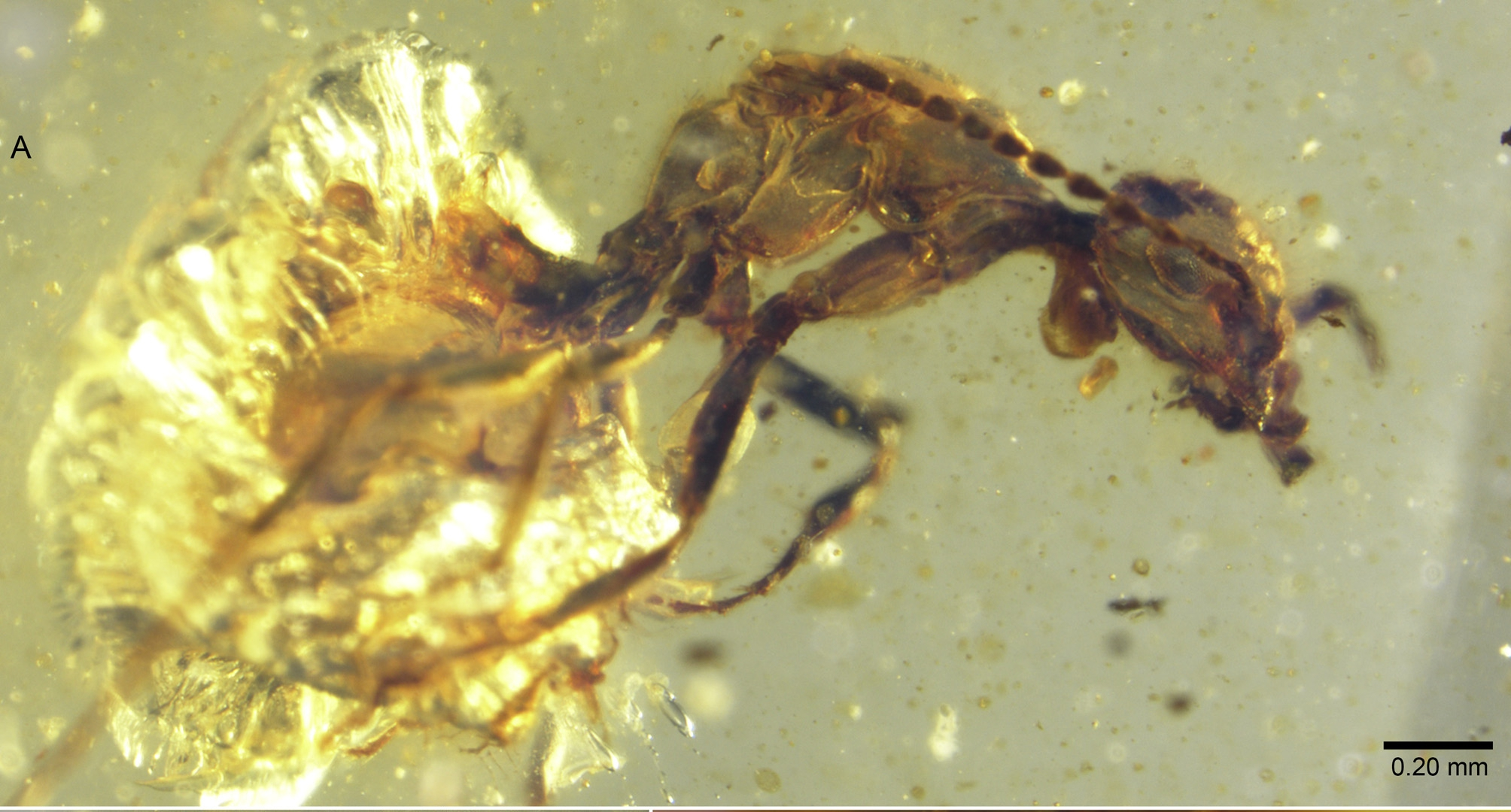 Zigrasimecia tonsora photomicrographs. (A) Lateral view of entire specimen. .